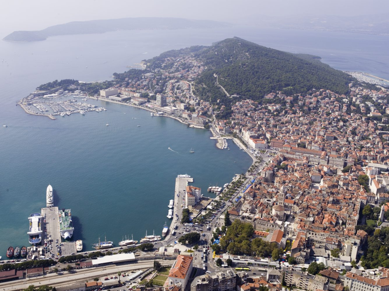 Aerial view of Croatian town Split